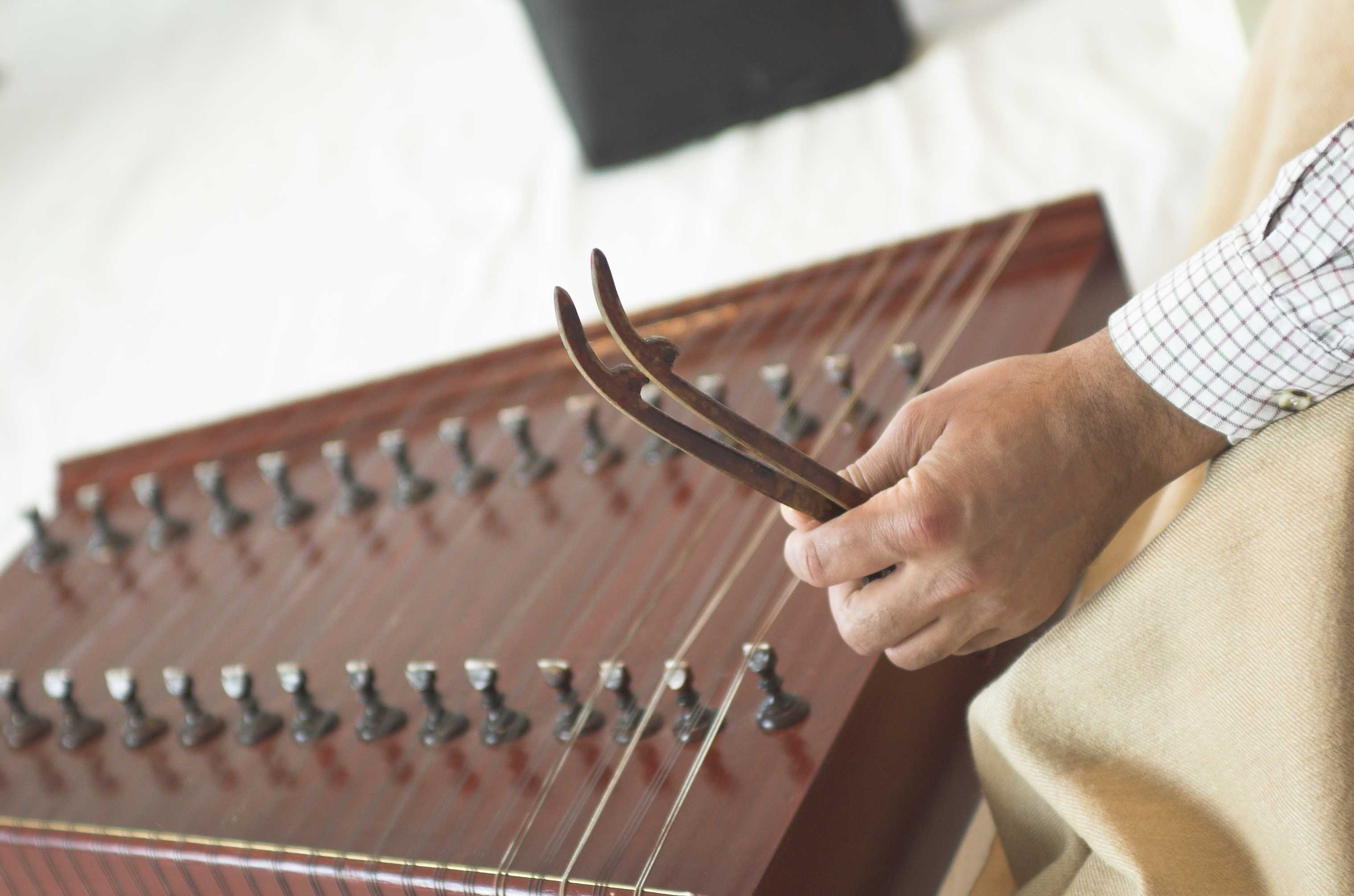 Santoor.